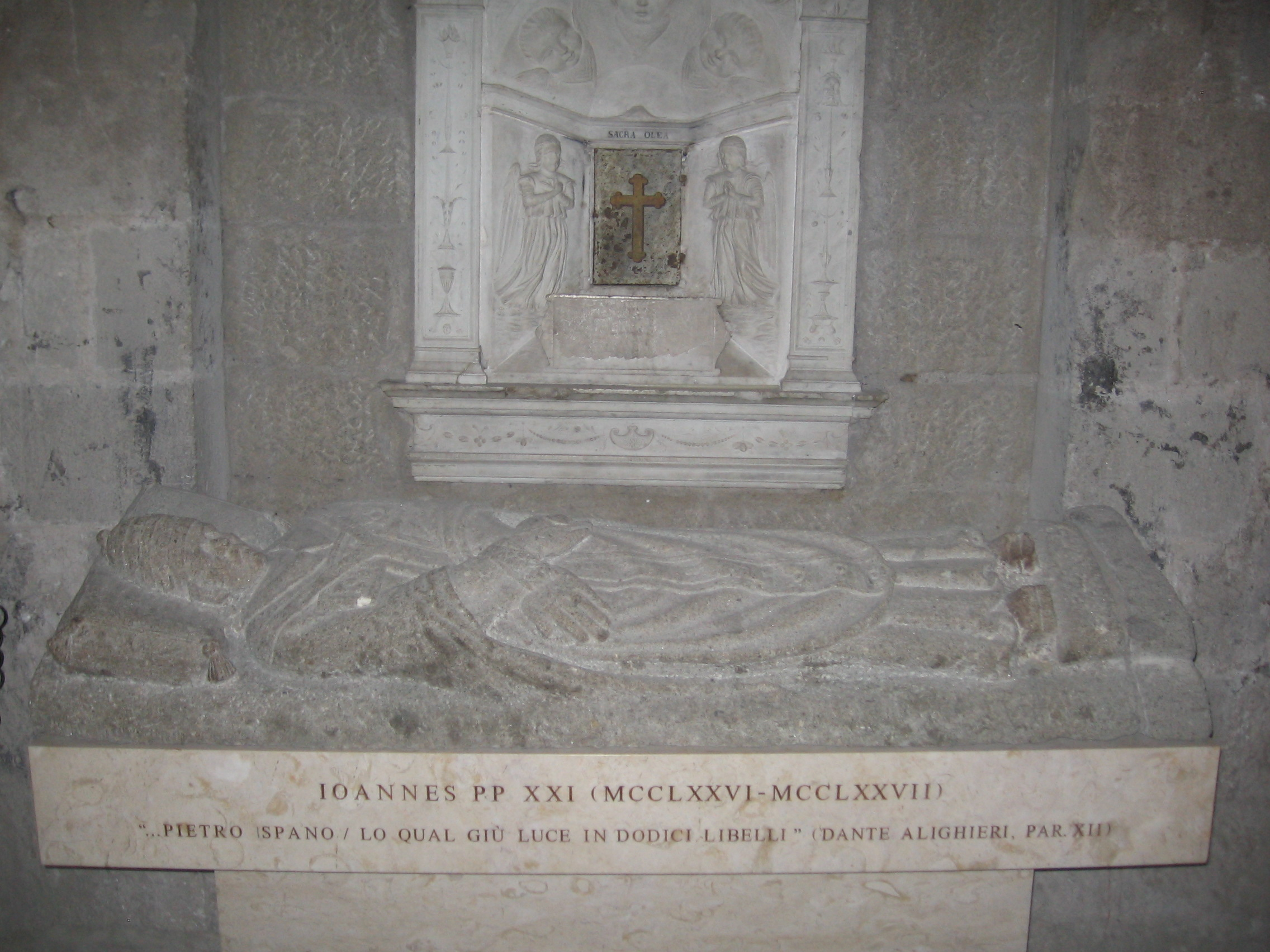 The sarcophagus of John XXI in the cathedral of Viterbo (Italy)